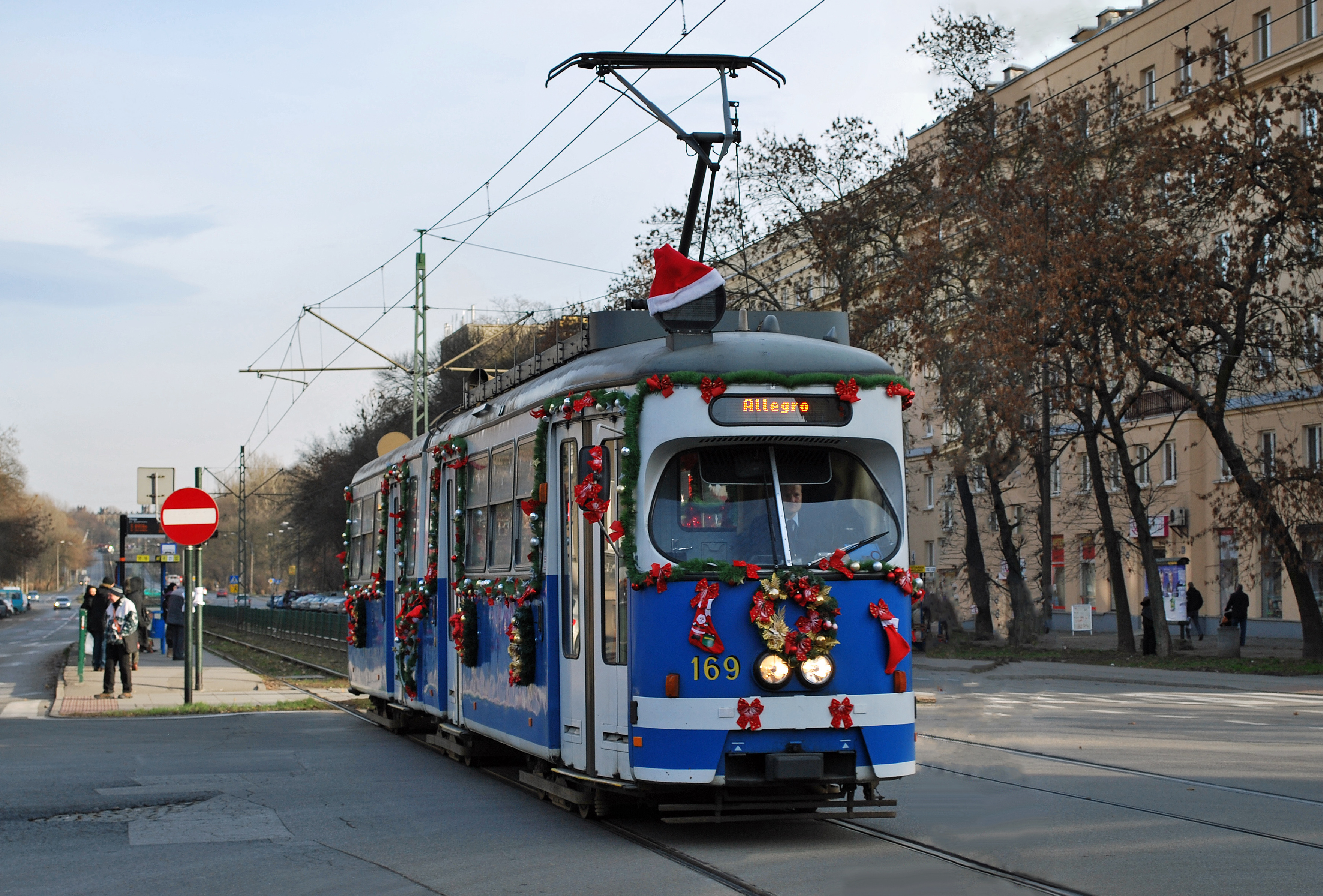 SGP/Lohner E1 type tram (christmas decoration), Solidarity Avenue, Nowa Huta, Kraków Poland